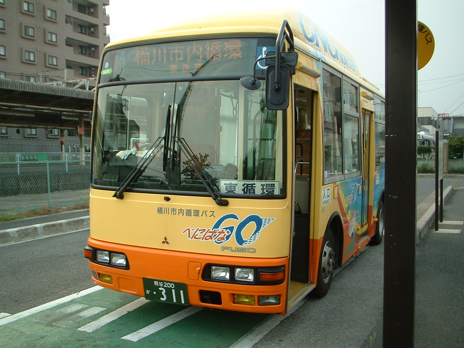 Okegawa City community bus Benibana Go